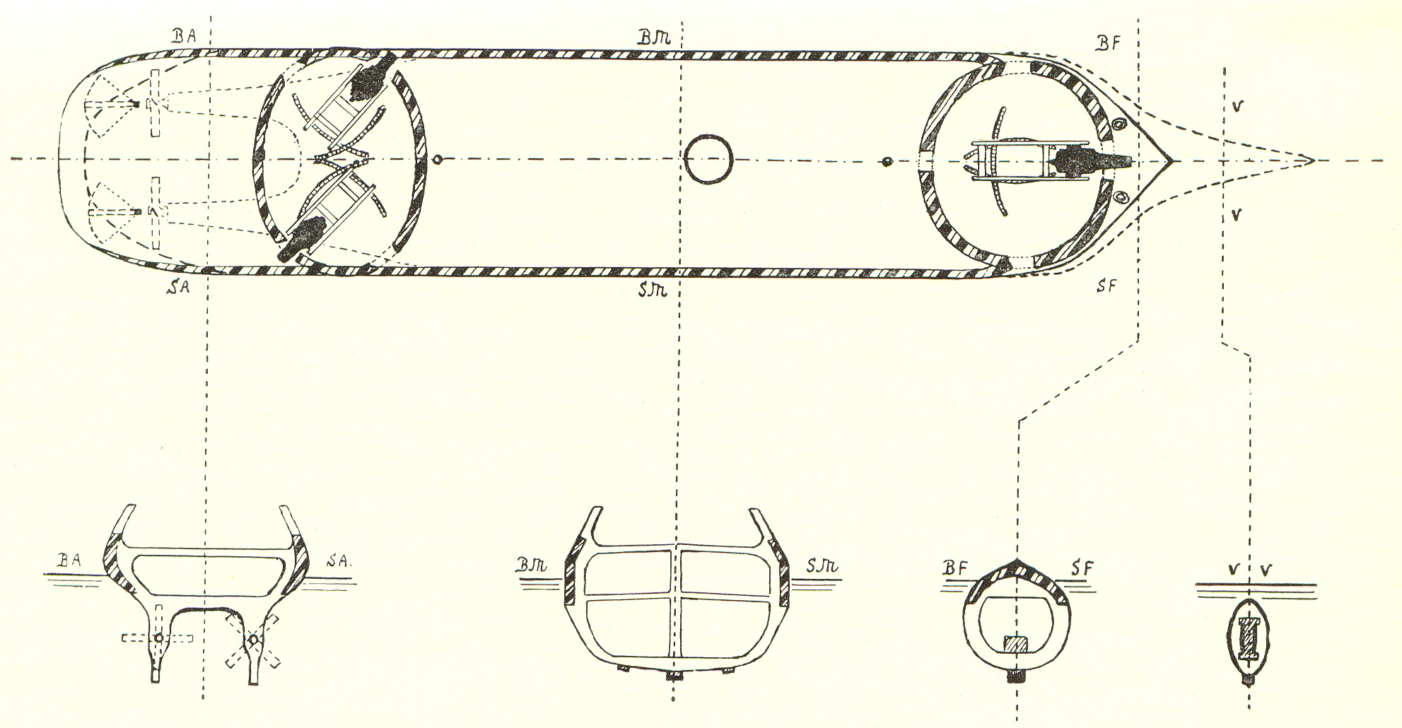 Plan of the CSS Stonewall, which later became the Japanese Kotetsu